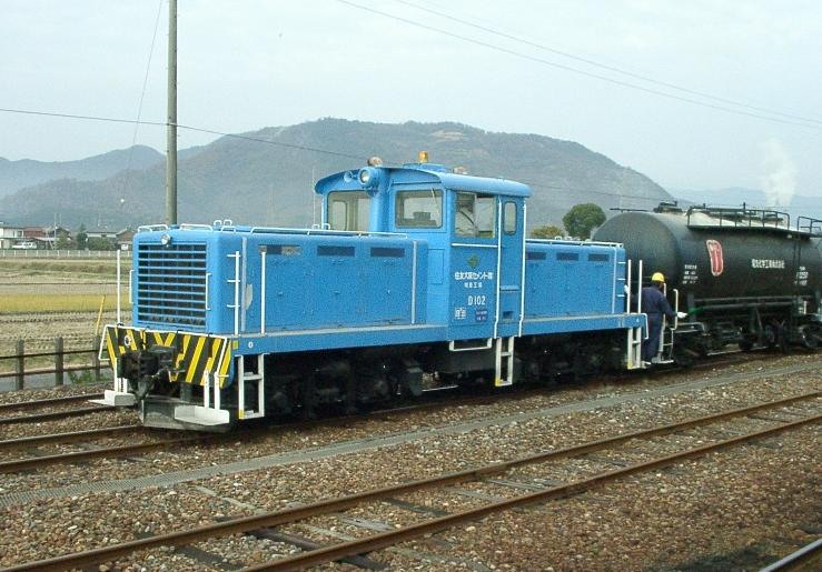 35t switcher type D102 for cement freight train of Tarumi railway, Motosu Sta., Gifu, Japan.